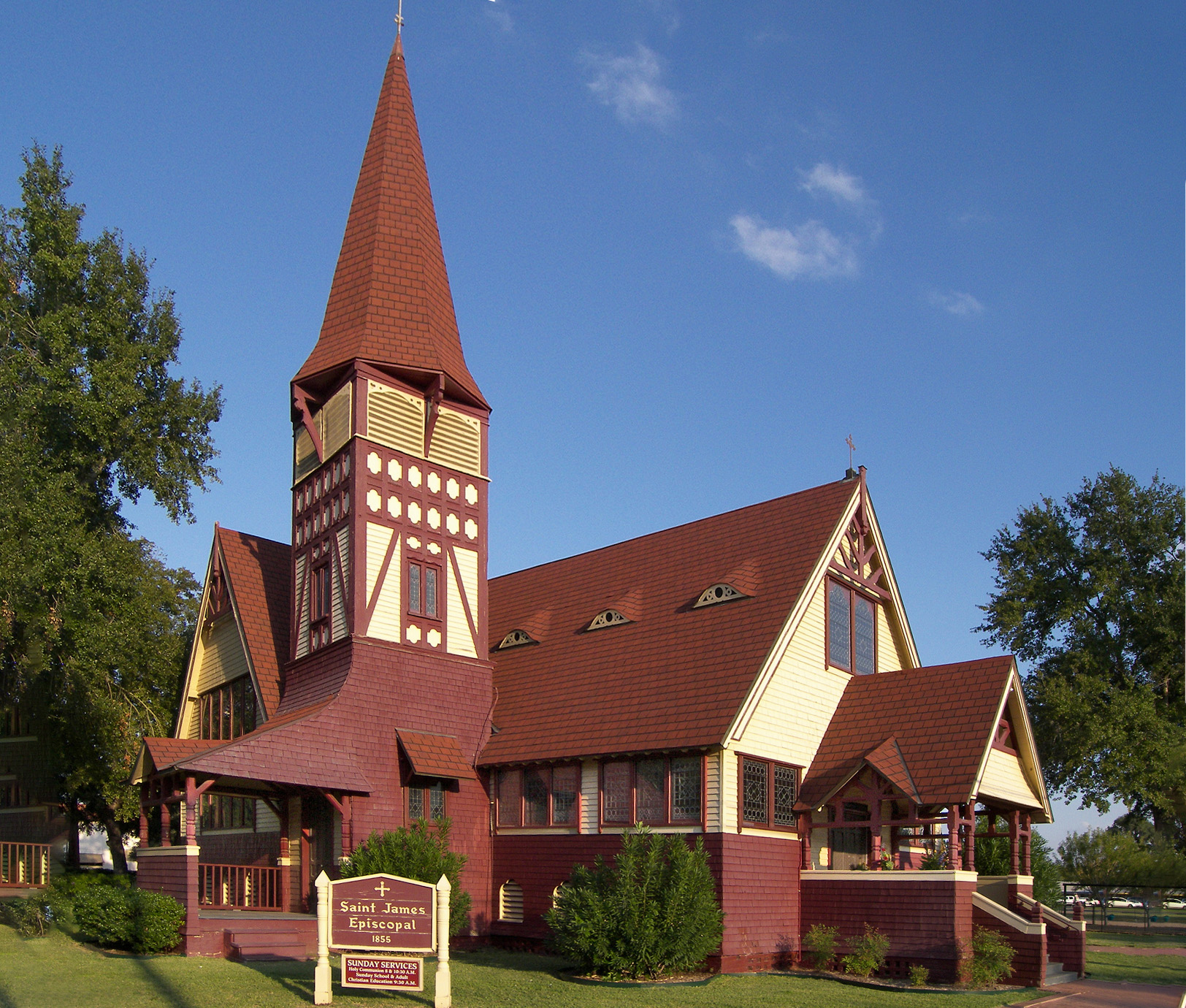 St. James Episcopal Church, La Grange, Texas, United States. The church was designated a Recorded Texas Historic Landmarks in 1964 and listed on the National Register of Historic Places on June 18, 1976.